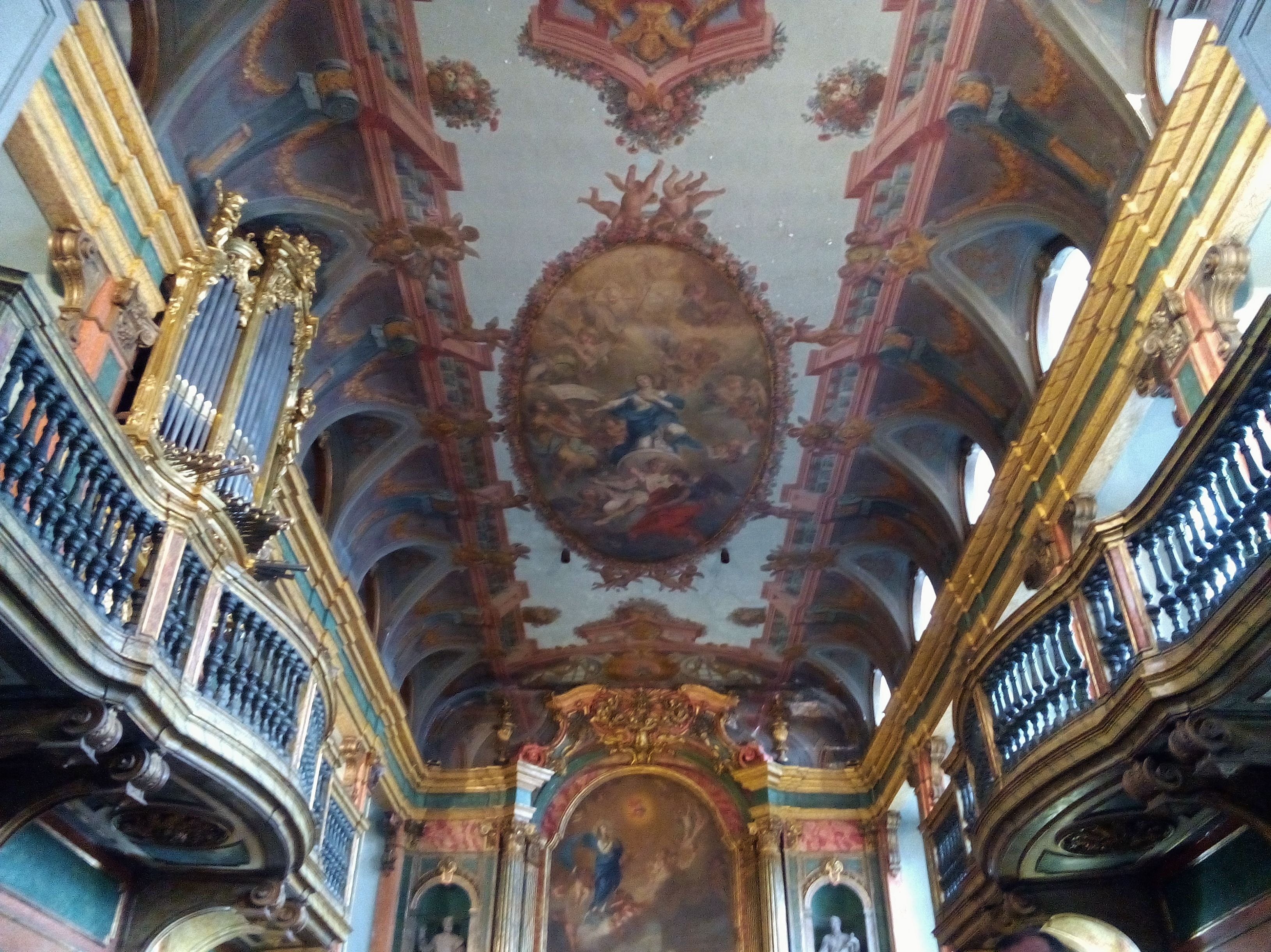 Ceiling of the High Altar in the Chapel of Bemposta Palace, in Lisbon, Portugal.